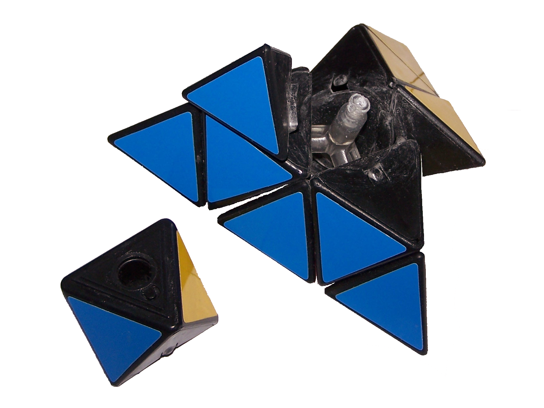 Disassembled pyraminx. The center piece, which was removed, is also on the photo.